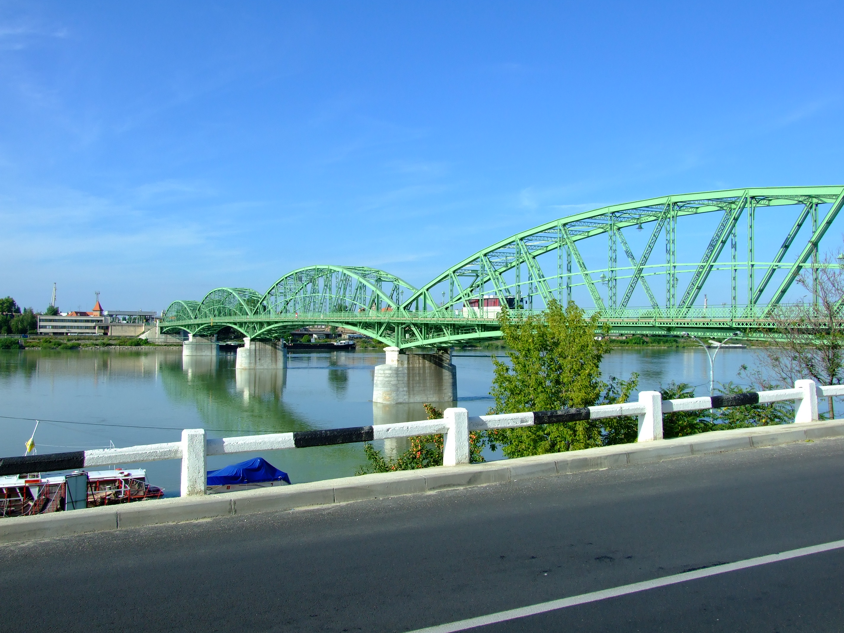 Erzsebét híd from Komárom side, Komárom-Esztergom comitat, HUhelp